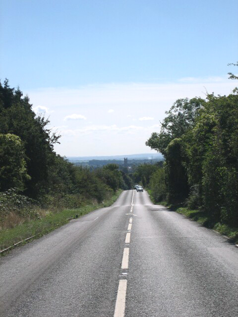 Ermin Street, near Cirencester: view south-east along Ermin Street, the former Roman road from Gloucester (Glevum) to Cirencester (Corinium) and beyond - near to Lower End, Gloucestershire, Great Britain